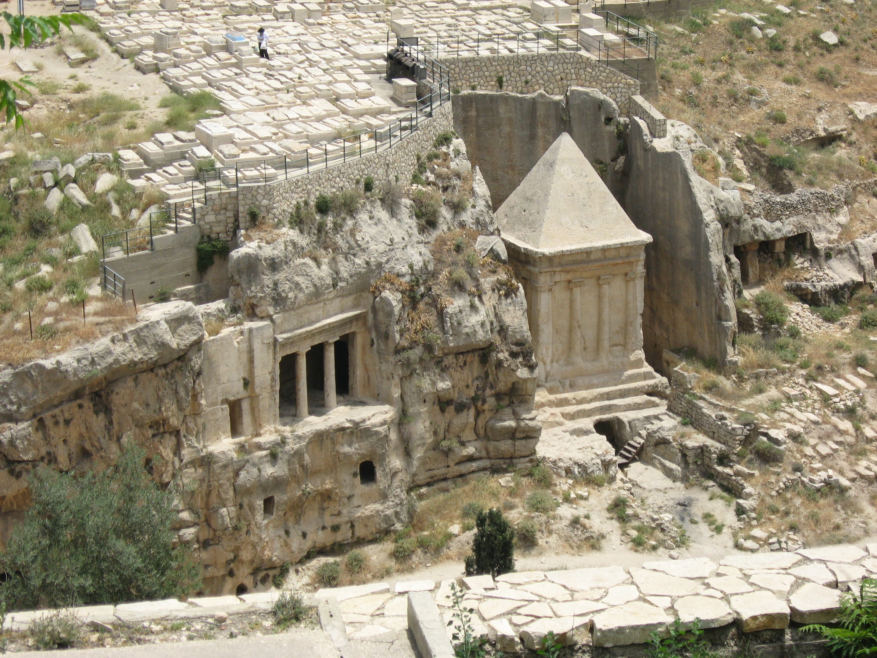 The Tombs of Bnei Hezir and Zechariah in Jerusalem's Kidron Valley